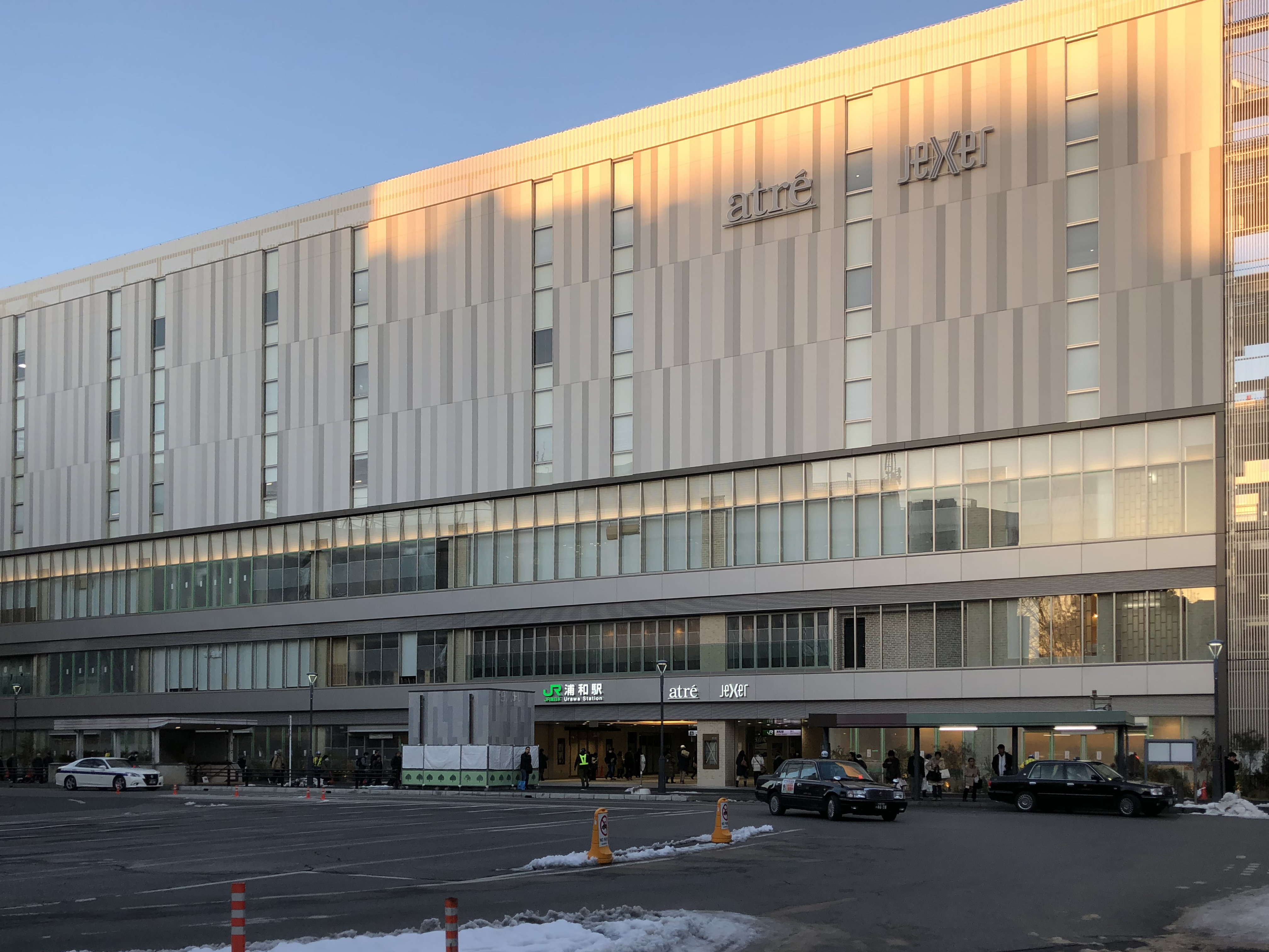 The west side of Urawa Station in Saitama Prefecture, Japan